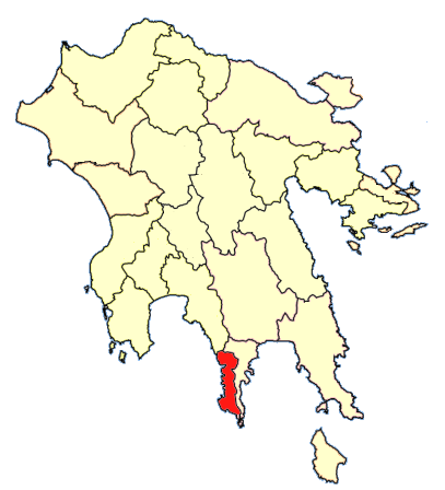 oitylo province